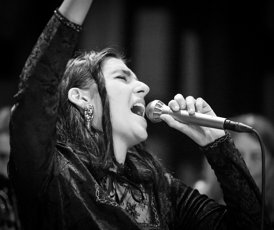 Mariam Wallentin performs with Fire! Orchestras at the stage of Sentralen. The concert was part of the Oslo Jazz Festival in Norway and took place on 18. August 2016. Lineup: Mats Gustafsson (saxophone) Johan Berthling (bass guitar) Andreas Werliin (drums) Mariam Wallentin (vocal) Sofia Jernberg (vocal)